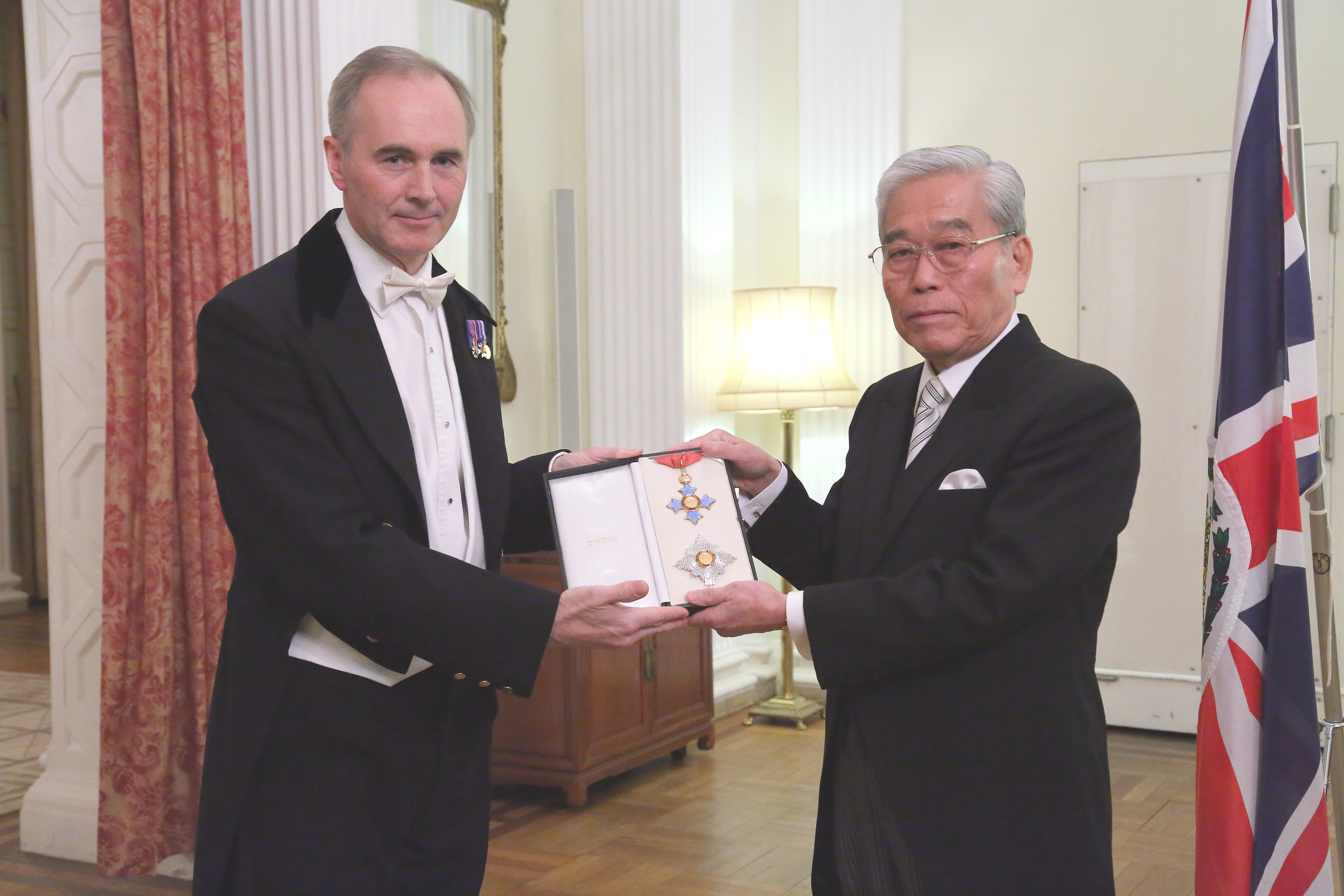 Tim Hitchens, Ambassador to Japan, conducted an investiture ceremony for Hisashi Hieda, Chairman of the Fuji Media Holdings, Inc., at the Embassy of the United Kingdom in Tokyo on January 21, 2014. Hieda was given the Knight Commander of the Most Excellent Order of the British Empire from Hitchens.